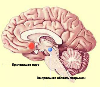 Nucleus accumbens in russian